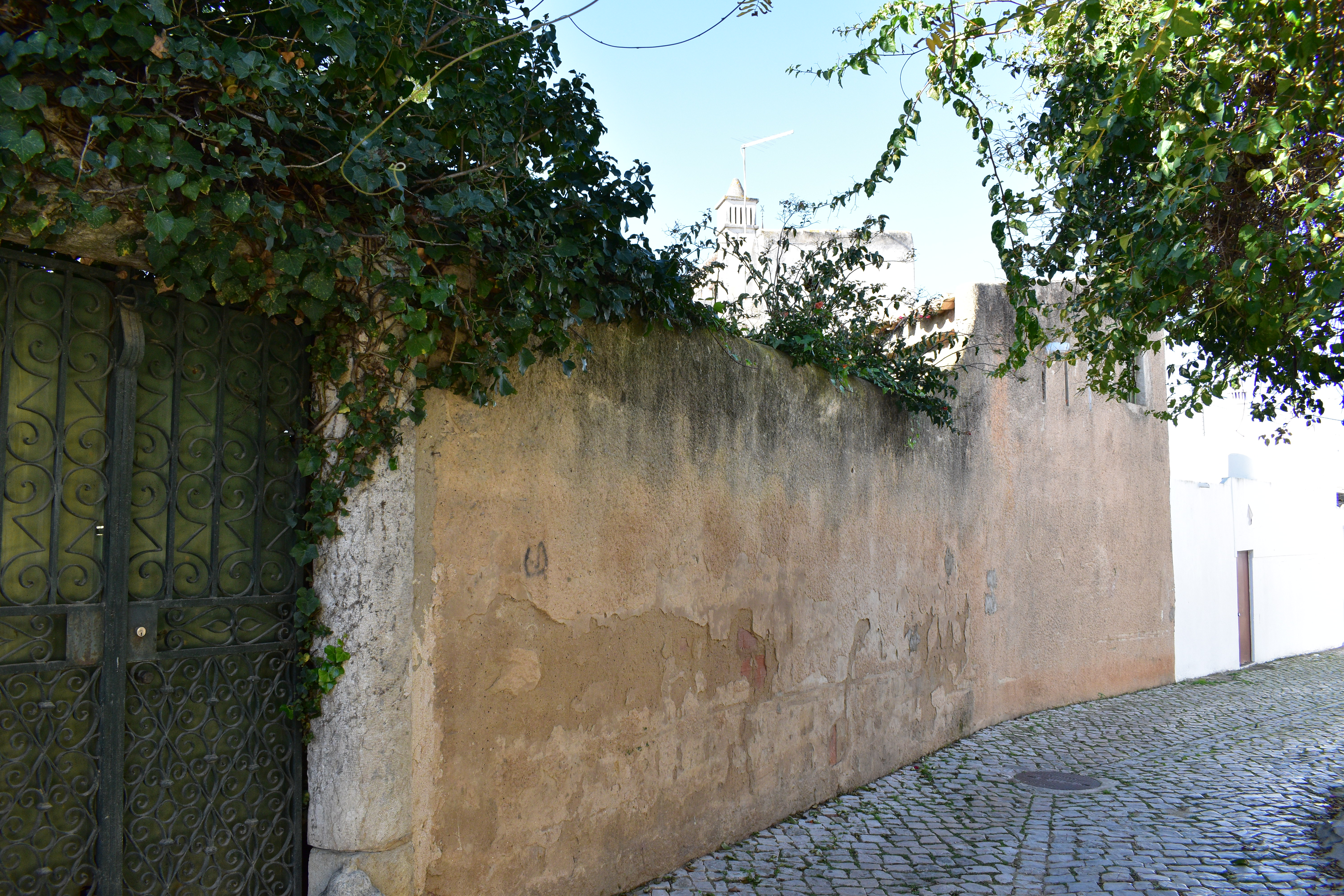 Former wall of the Alcantarilha Castle, in the region of Algarve, in southern Portugal.